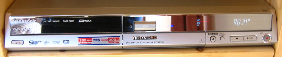 Panasonic DVD recorder DMR-EH60 with internal hard disk drive